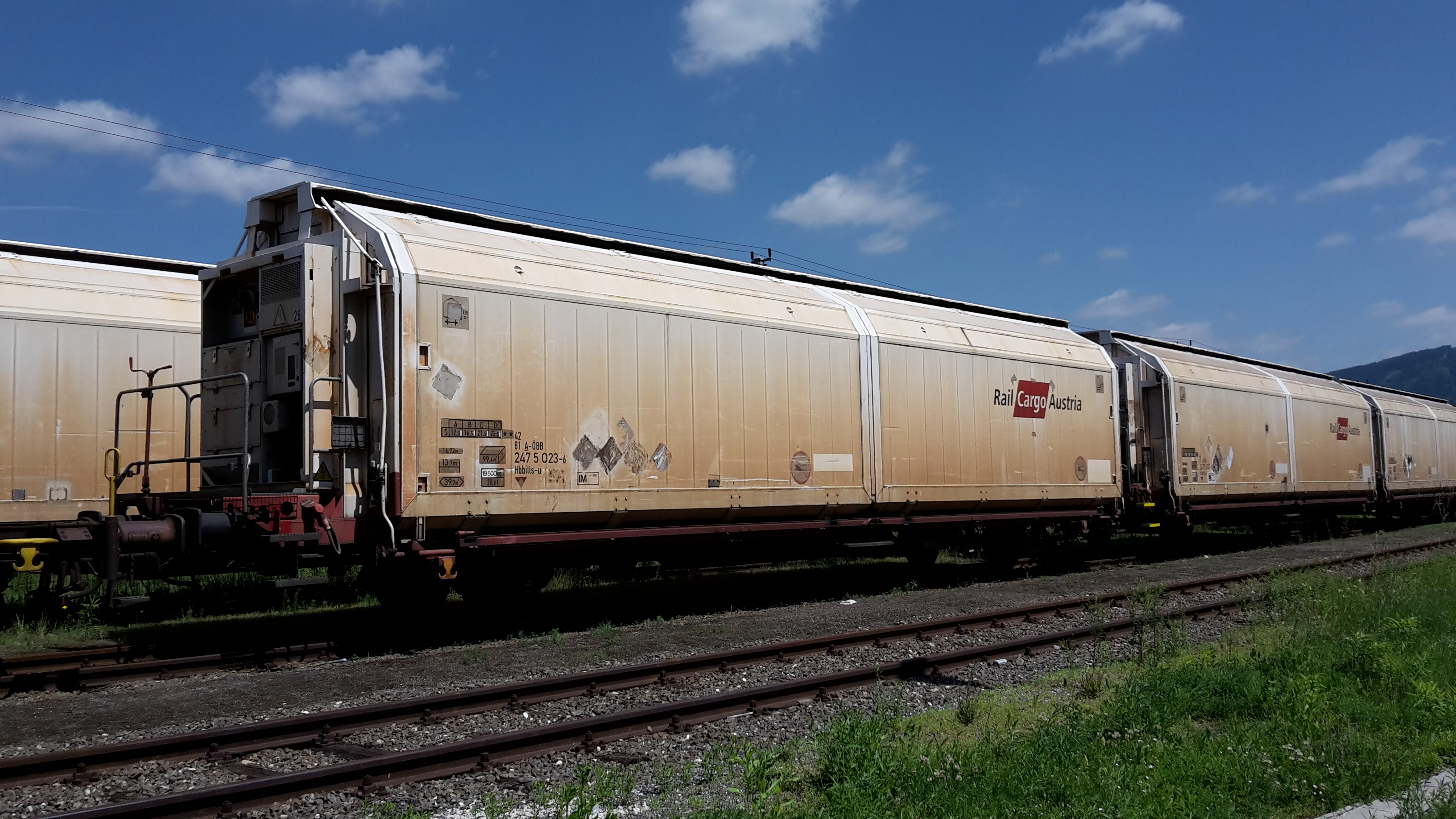 Refrigerated sliding wall wagon 42 81 247 5 023-6 Hbbills-u of Rail Cargo Austria in Niklasdorf.